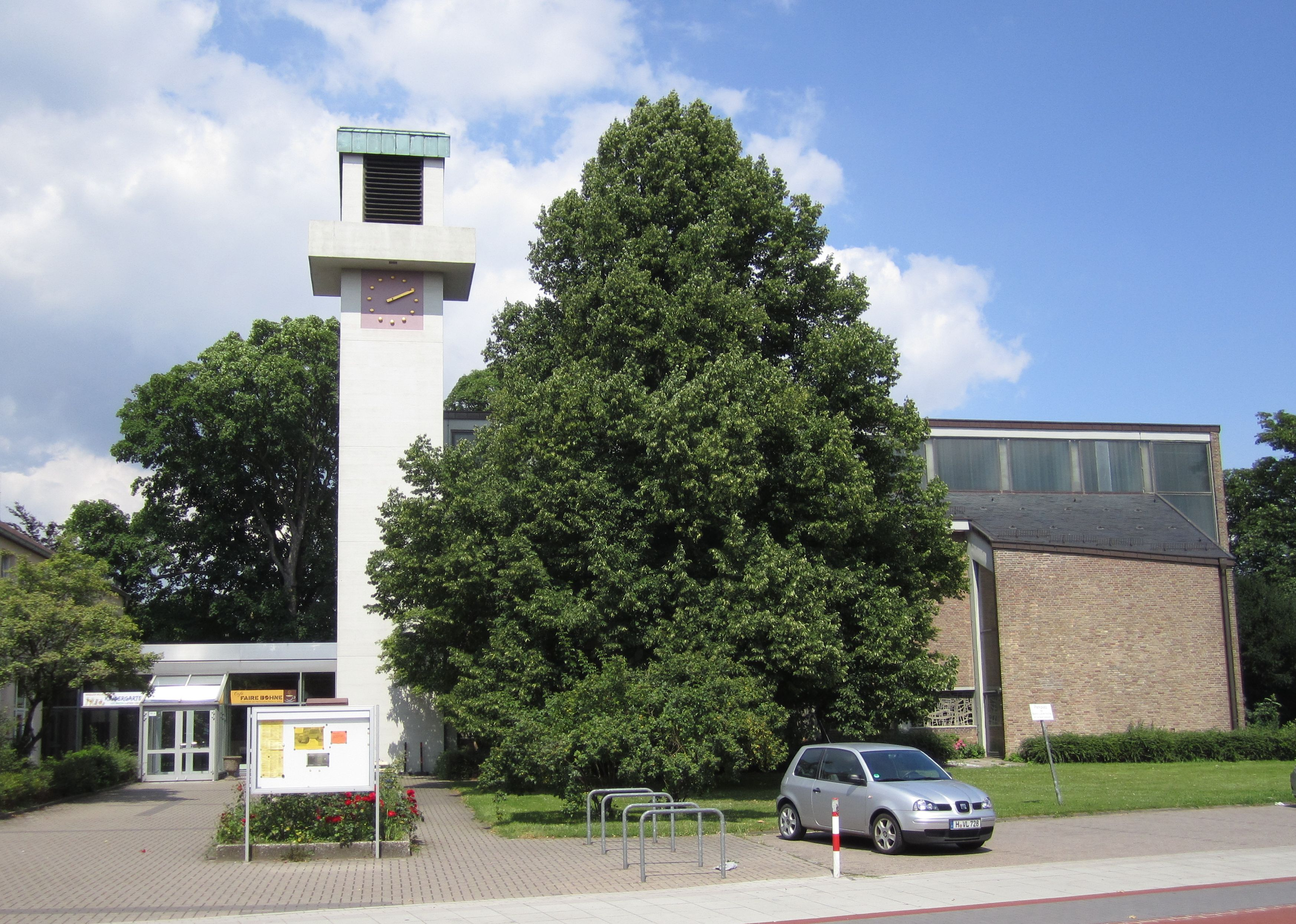 Martin Luther church in Ahlem, Hanover, Germany.